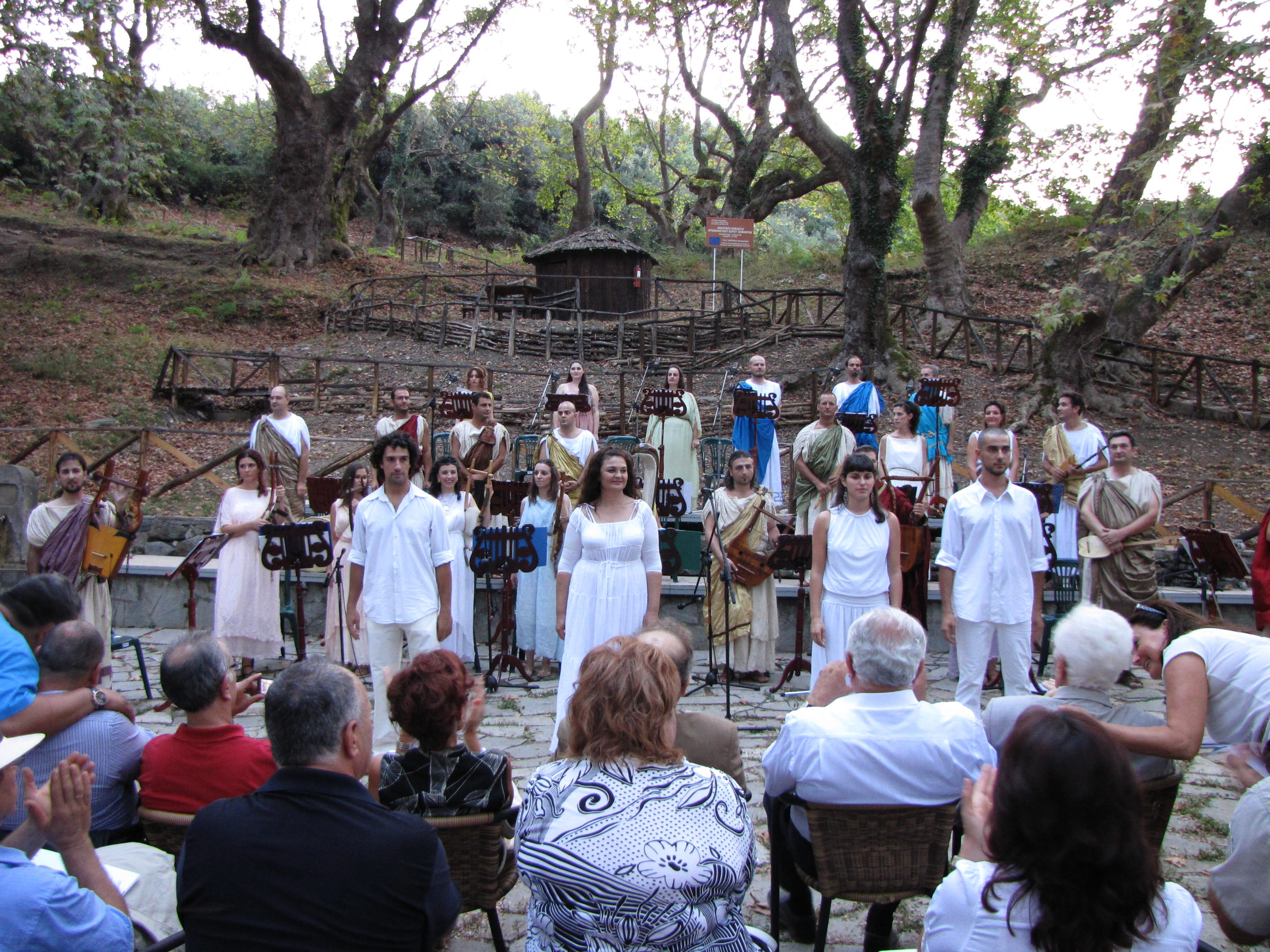 Event at Leivithra